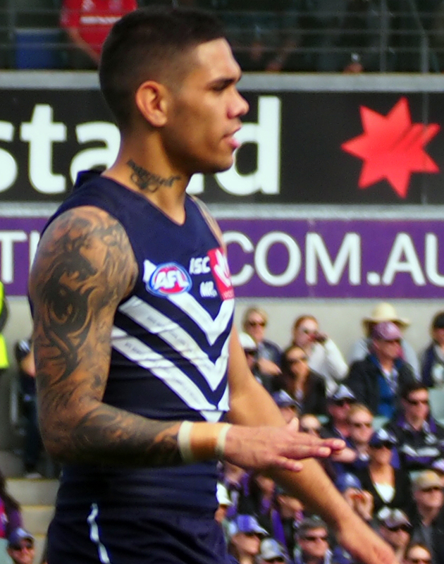 Michael Walters playing for Fremantle Football Club at Domain Stadium, Perth. Round 23: Fremantle vs Western Bulldogs, 28 August 2016